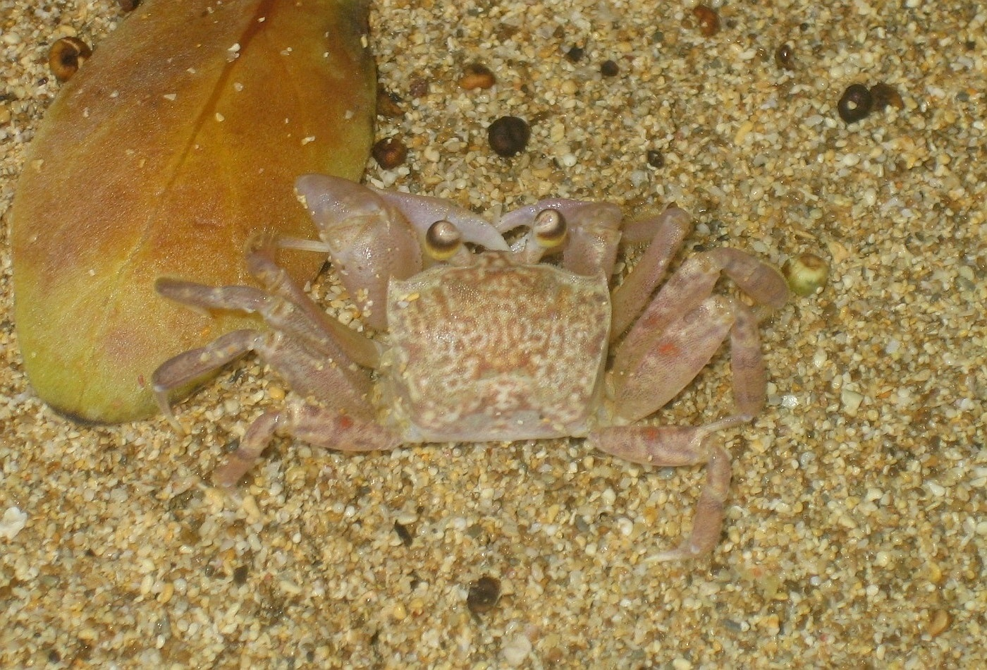 Crab on beach of Pacific Ocean (Laie, Oahu Island, Hawaiian Islands)